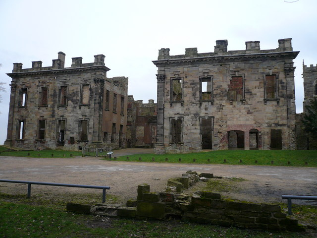 Sutton Scarsdale Hall, Derbyshire, seen from the west, with the west tower of St Mary's parish church partly visible on the right